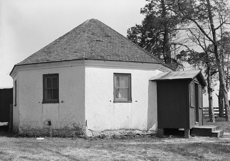 Octagonal School House, Route 9, Little Creek (Kent County, Delaware) cropped This file comes from the Historic American Buildings Survey (HABS), Historic American Engineering Record (HAER) or Historic American Landscapes Survey (HALS). These are programs of the National Park Service established for the purpose of documenting historic places. Records consist of measured drawings, archival photographs, and written reports. When reusing please credit: Library of Congress, Prints & Photographs Division, DEL,1-LEIP.V,1-1 This tag does not indicate the copyright status of the attached work. A normal copyright tag is still required. See Commons:Licensing. This work is in the public domain in the United States because it is a work prepared by an officer or employee of the United States Government as part of that person’s official duties under the terms of Title 17, Chapter 1, Section 105 of the US Code. Note: This only applies to original works of the Federal Government and not to the work of any individual U.S. state, territory, commonwealth, county, municipality, or any other subdivision. This template also does not apply to postage stamp designs published by the United States Postal Service since 1978. (See § 313.6(C)(1) of Compendium of U.S. Copyright Office Practices). It also does not apply to certain US coins; see The US Mint Terms of Use. This file has been identified as being free of known restrictions under copyright law, including all related and neighboring rights. Object location39° 11′ 44″ N, 75° 28′ 21″ W